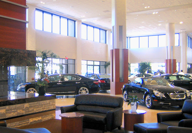 Newport Lexus